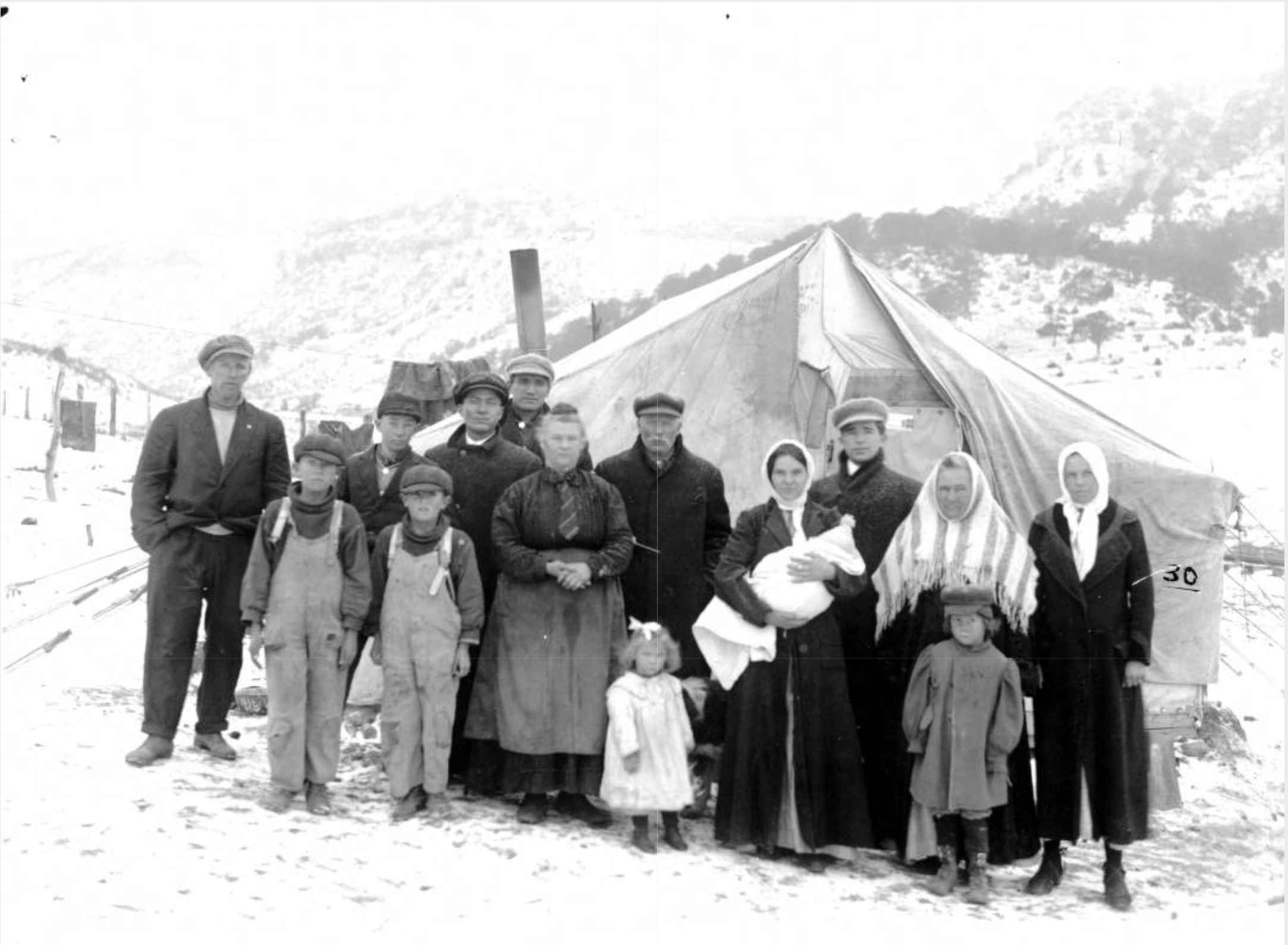 Striking coal miners and their families pose near Joe Zanetell's tent during the UMW labor strike against CF & I. at Forbes Camp near Ludlow, Las Animas County, Colorado The people are identified (left to right) as: 1) an unidentified man, 2) Angelo Mosher, behind the boys 3) George Prescar and 4) his brother, 5) an unidentified man in a dark hat, 6) Joseph Zanetell stands in front of the chimney in a light cap, 7) Mrs. Mosher, with a tie and apron, 8) an unidentified man, 9) Irene Micheli (later Dotson), a young girl, 10) Mary Oberosler Micheli holds her baby 11) Charlie Micheli, 12) an unidentified man in a light cap, 13) Clarence Johnson who stands in front of 14) Mrs. Johnson, who wears a striped shawl over her head, and 15) Sarah Johnson.